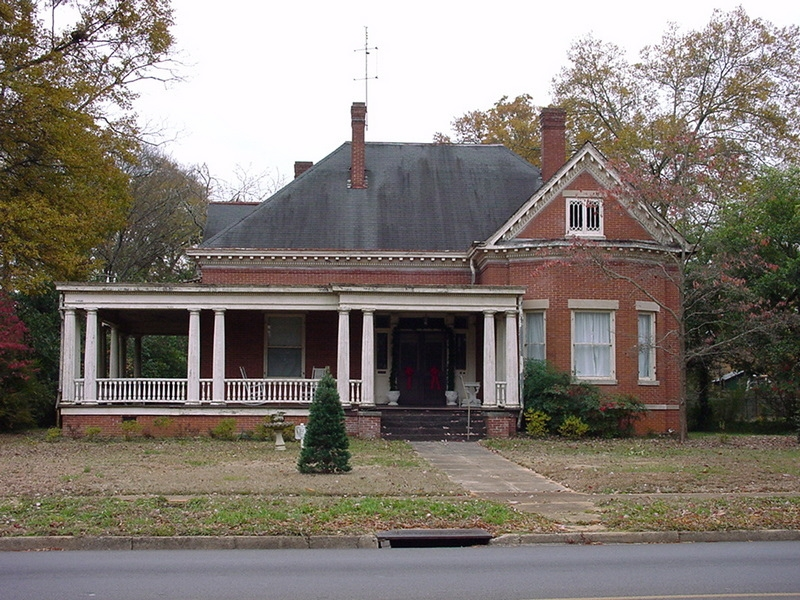 This one-story, double-brick house was built by Dr. Samuel Welch in 1907.